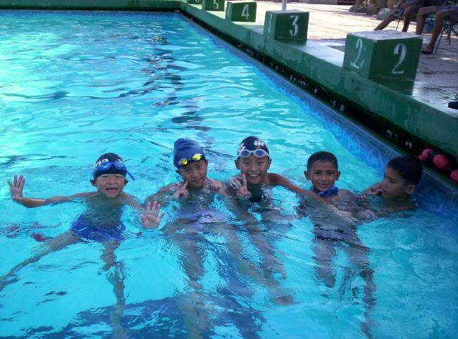 Pathana's childhood colleagues